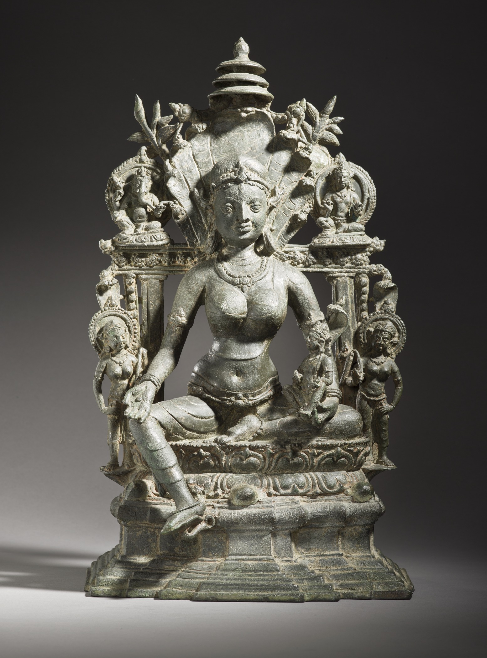 India, Bihar, Gaya District, circa 900 Sculpture Copper alloy From the Nasli and Alice Heeramaneck Collection, Museum Associates Purchase (M.83.1.2) South and Southeast Asian Art